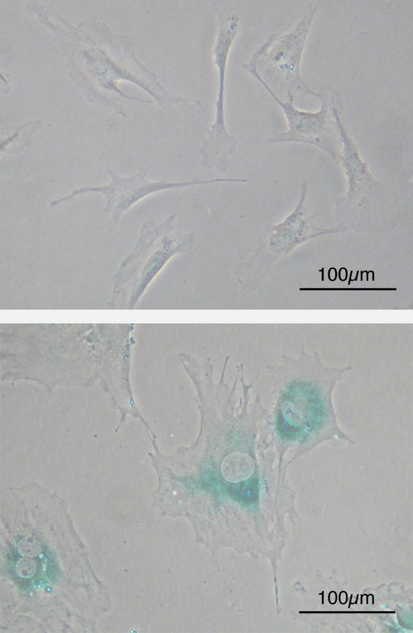 Microscopic image of senescence on mouse embryonic fibroblast cells. (SABG assay. 100-fold magnification.). (upper) Before senescence, at 2nd (early) passage. Note that MEFs were spindle shaped. (lower) After senescence, at 8th (late) passage. MEFs grew larger and flatten. Blue-green areas indicate the expression of senescene-associated beta-galactosidase.